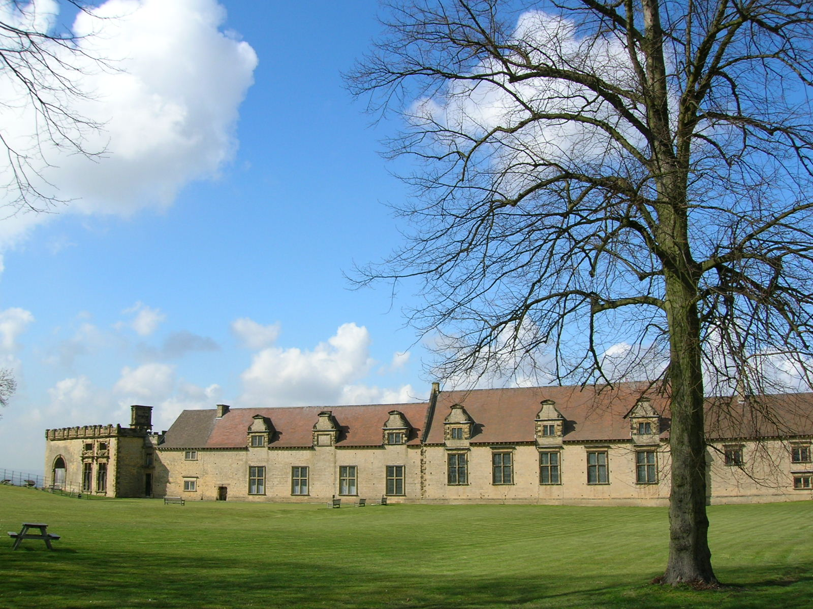 Bolsover Castle, stables